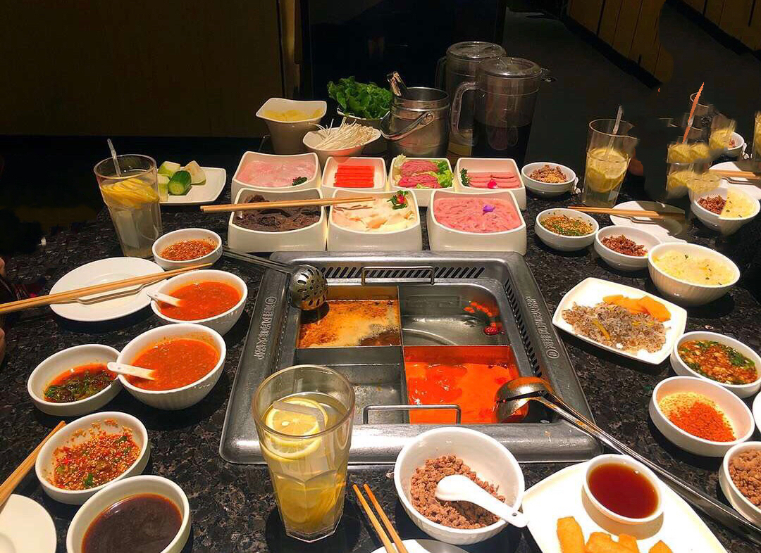 Hai Di Lao Hot Pot Food